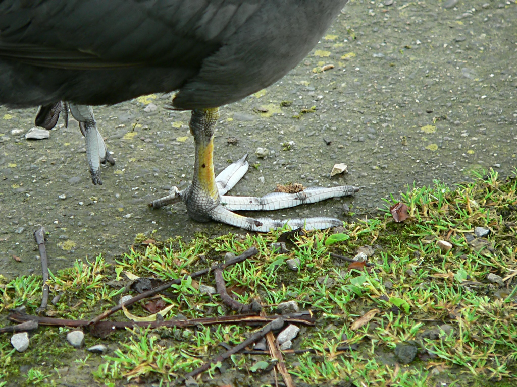 Fulica atra Foto taken by Ulrich Prokop (Scops)